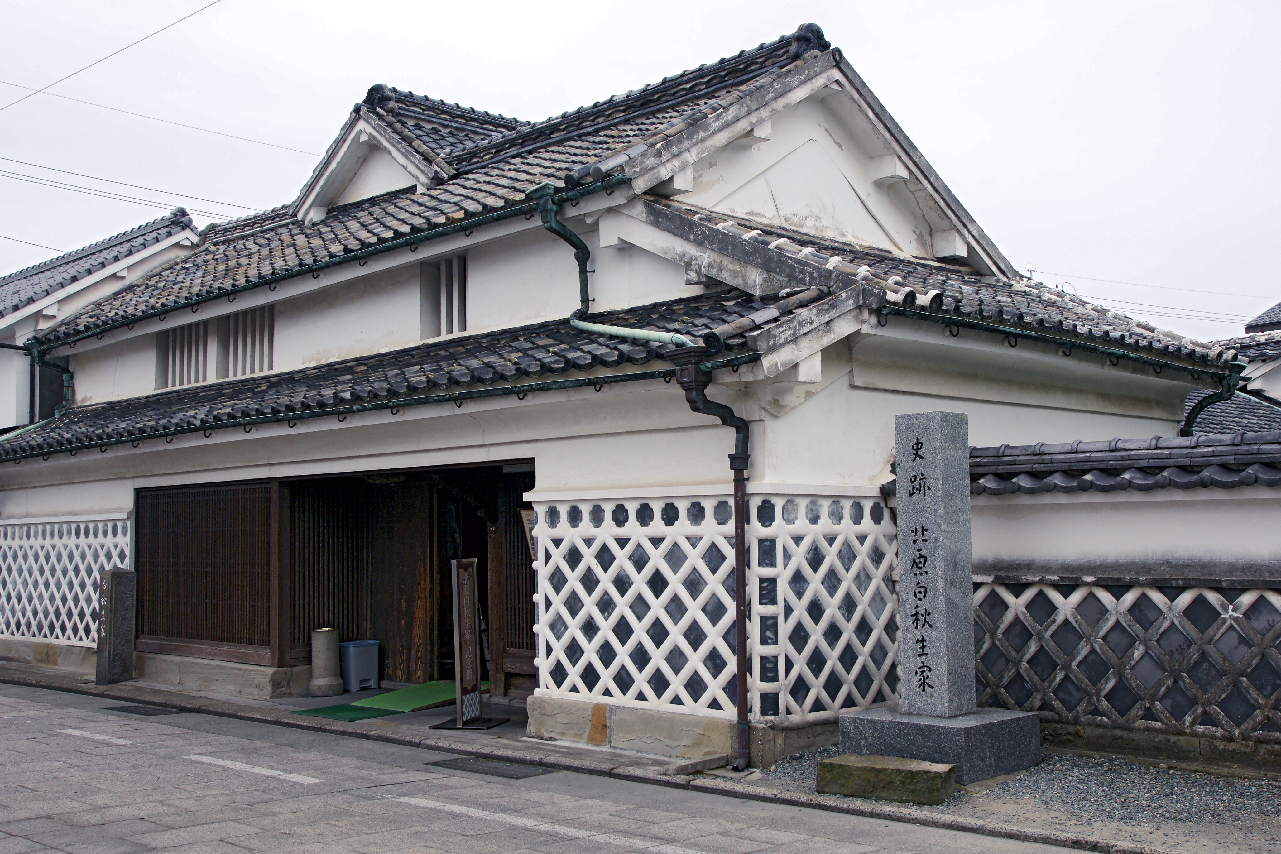 Kitahara Hakushu Memorial Park, Yanagawa, Fukuoka prefecture, Japan